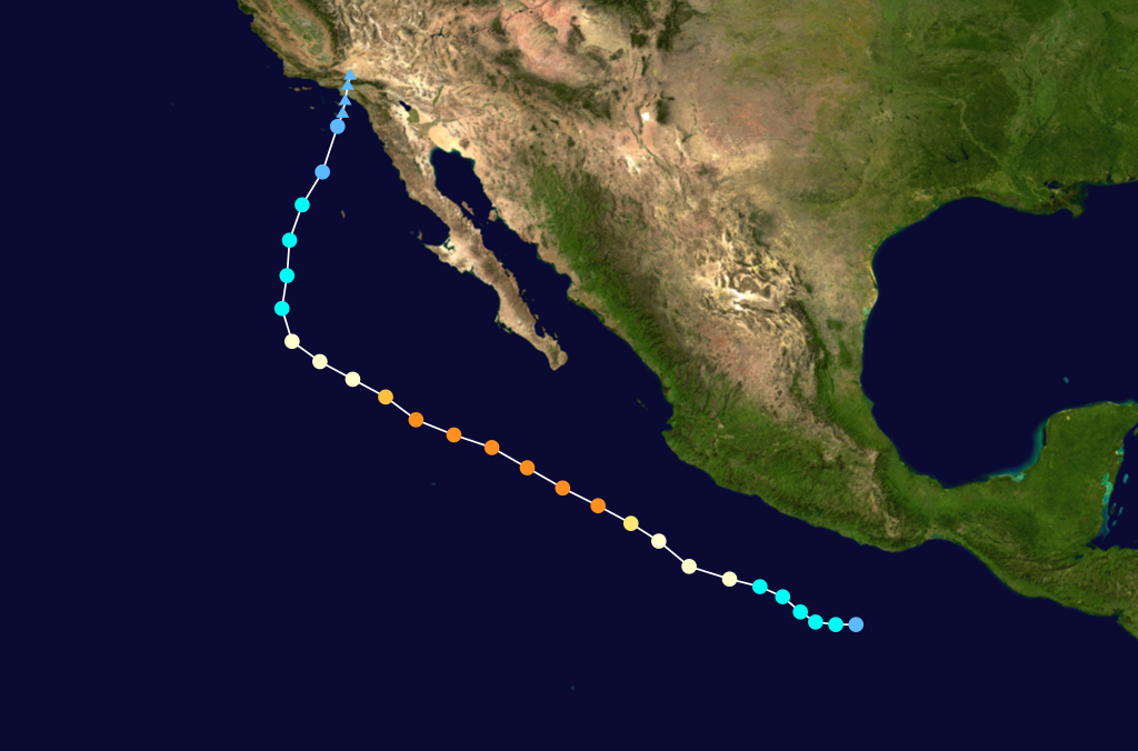 Hurricane Norman (1978) track. Uses the color scheme from the Saffir-Simpson Hurricane Scale.